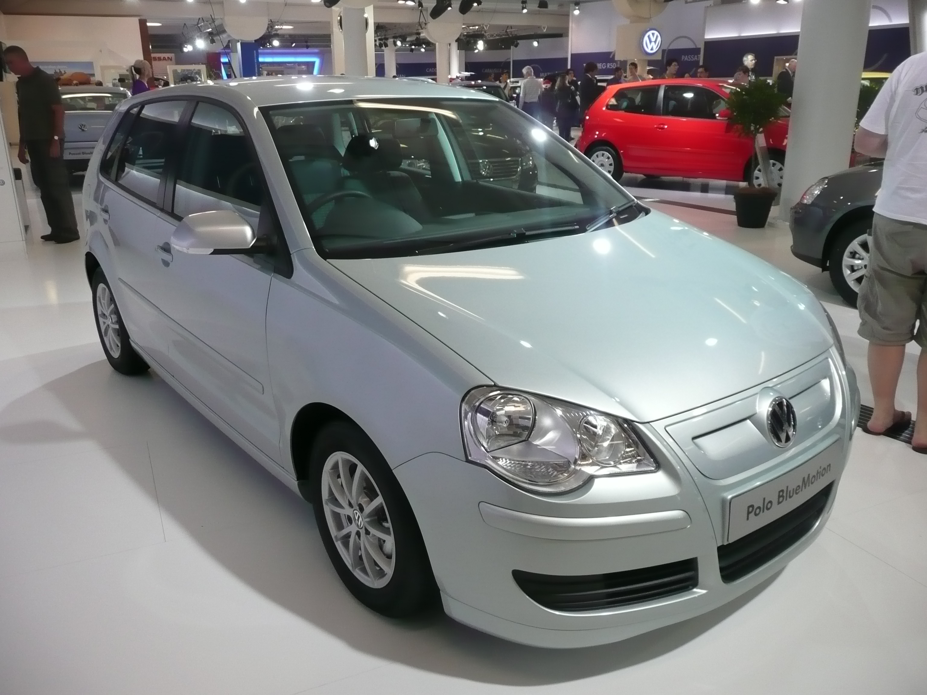 2006–2008 Volkswagen Polo IV BlueMotion 5-door hatchback. Photographed at the 2008 Australian International Motor Show, Sydney, New South Wales, Australia.